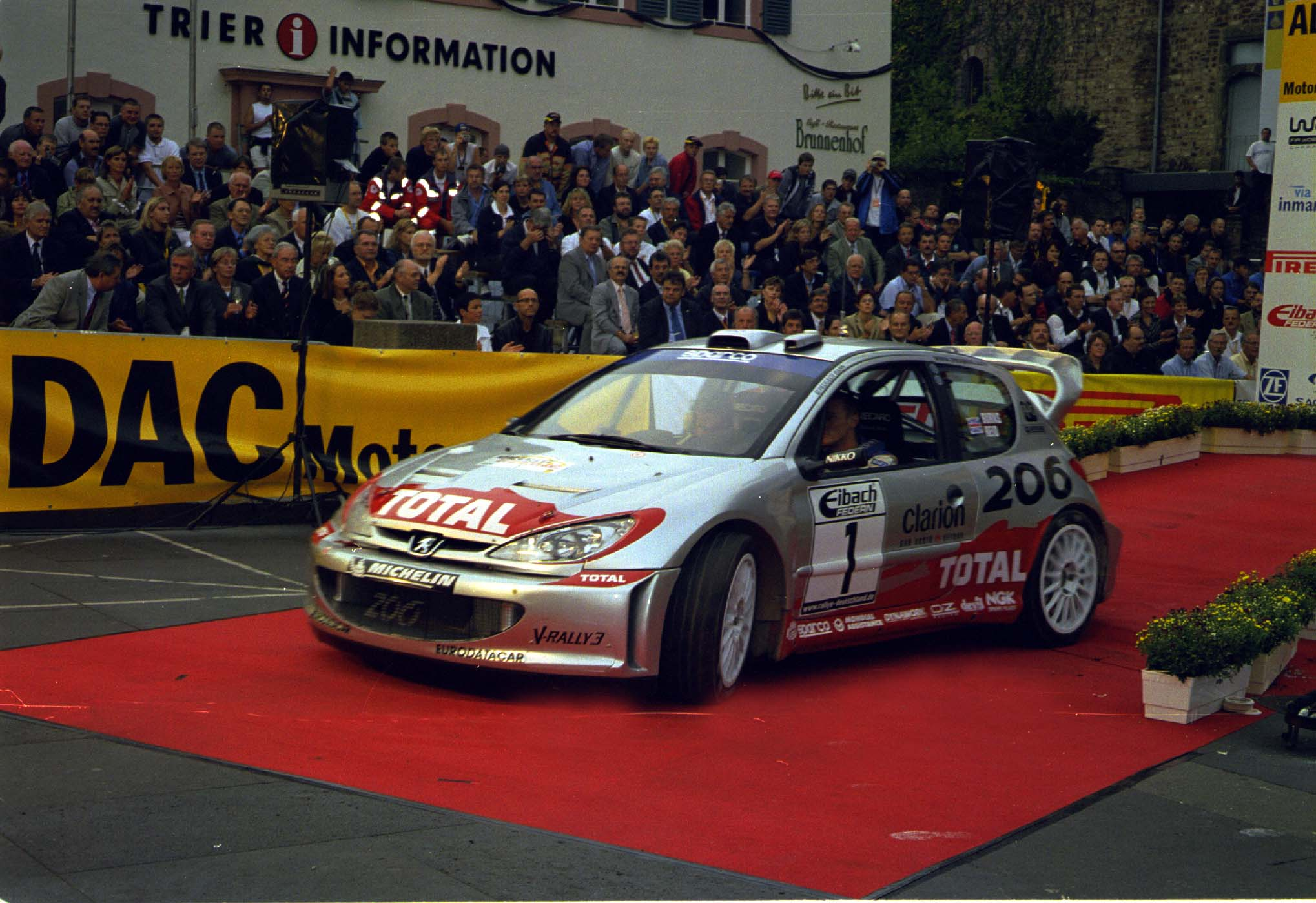 Richard Burns in Peugeot 206 WRC at the start of ADAC Rally Deutschland 2002 in Trier.